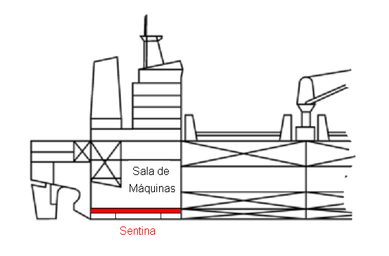 Engine room bildge